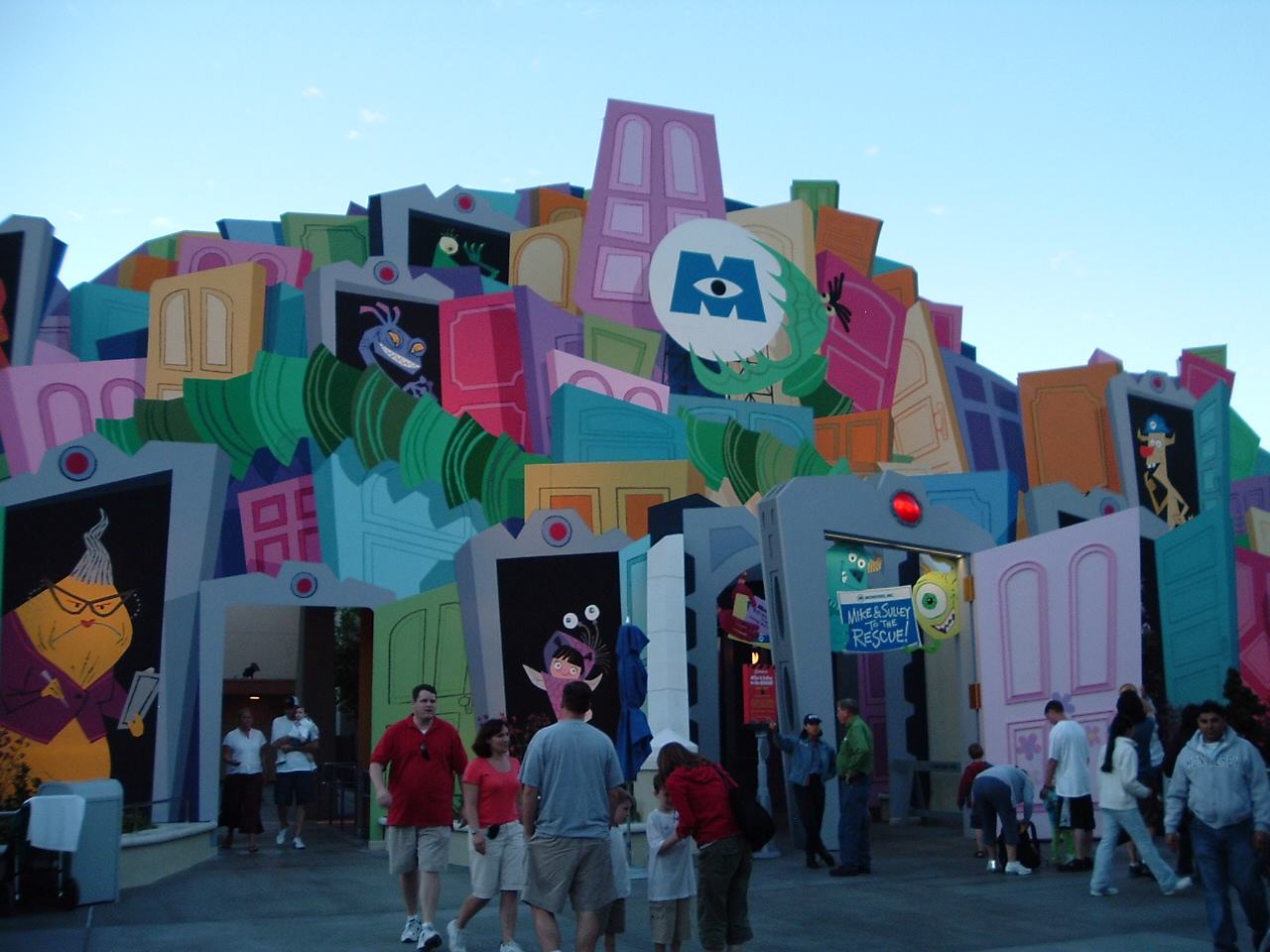 Exterior of Monsters, Inc. Mike and Sulley to the Rescue!